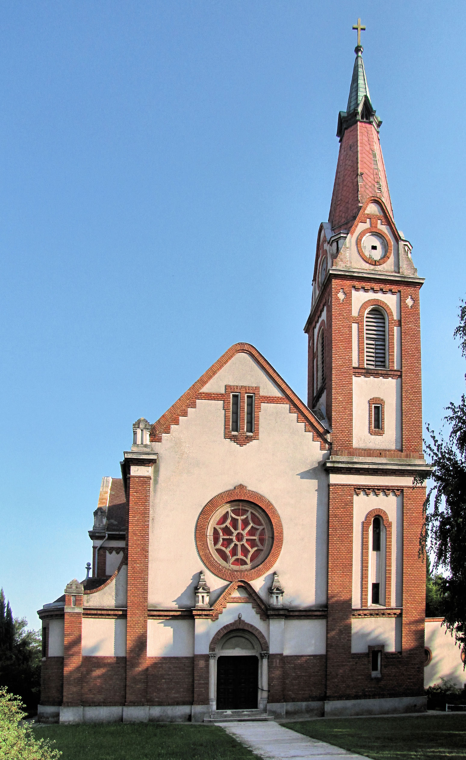 Saint Elizabeth the Hungarian Catholic Church in Novi Sad, Serbia.